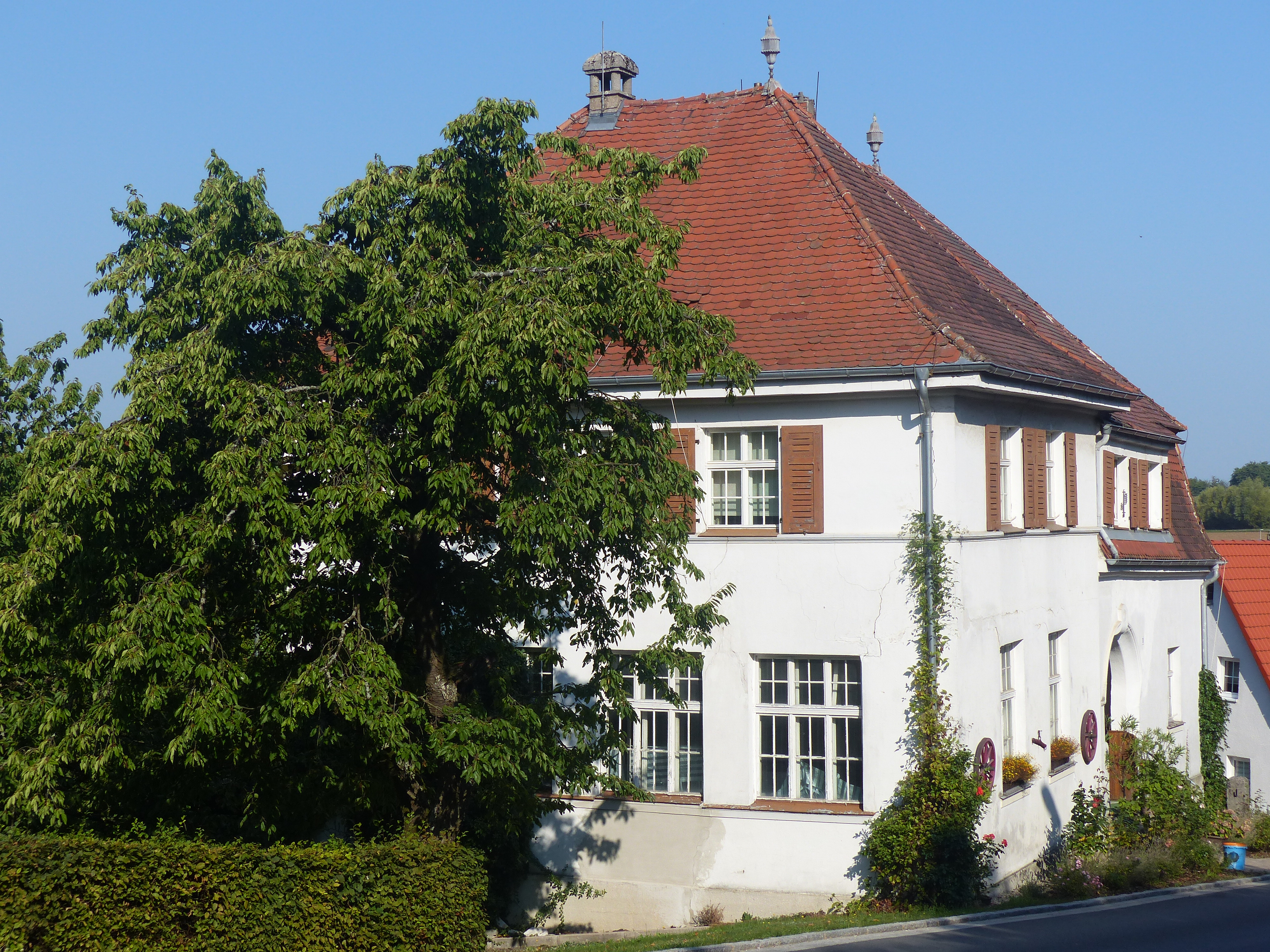 A former schoolhouse in the village Rettern, a district of the municipality of Eggolsheim.